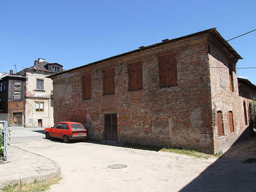 Small Synagogue in Kraśnik